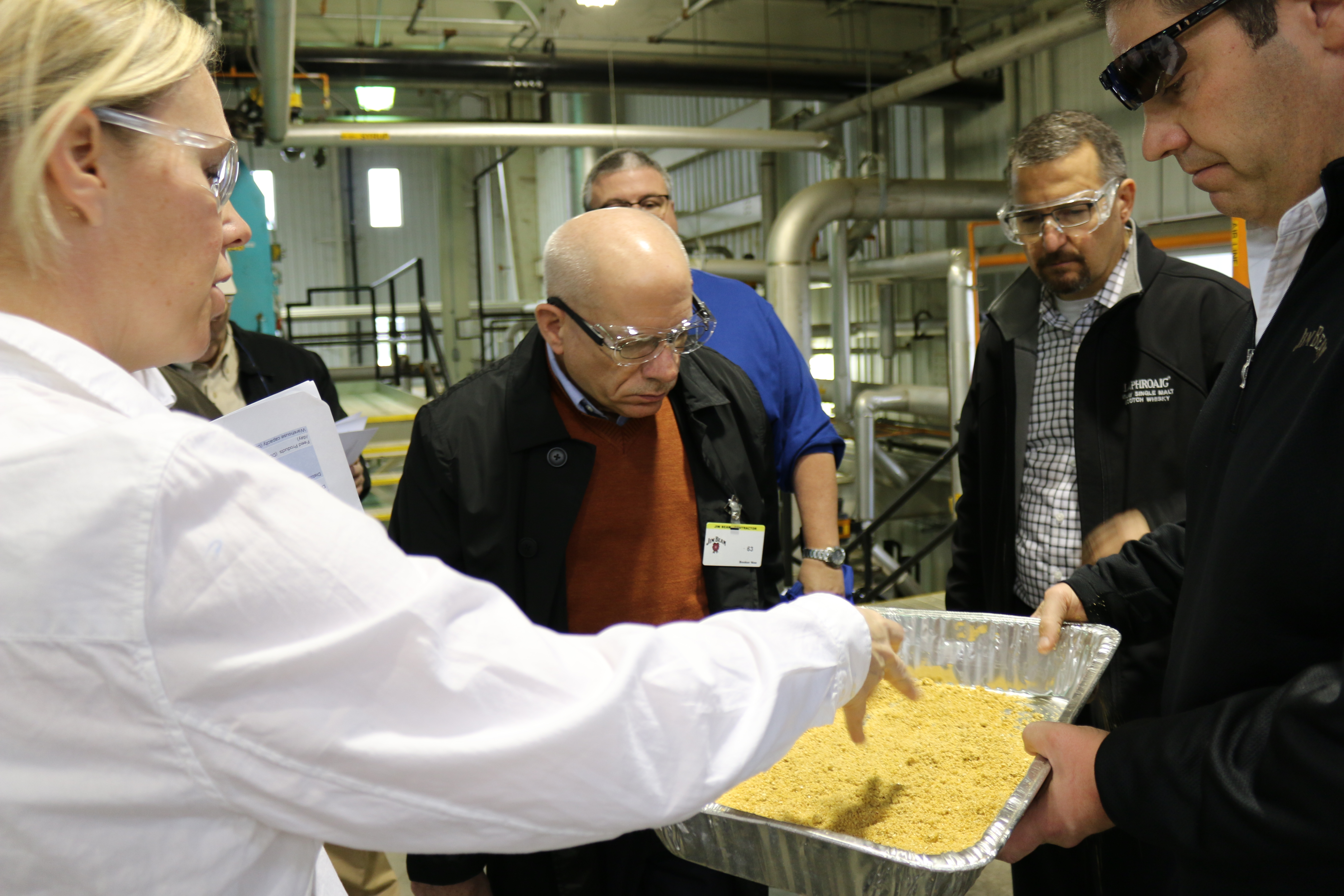 Jenny Murphy, a consumer safety officer in FDA’s Center for Veterinary Medicine (CVM), and FDA’s Dr Stephen Ostroff examine a tray of spent grains held by David Phillips, Senior Distillery Manager at the Booker Noe Distillery. Also shown is Luke Adam, Senior Manager of Scientific Services for Beam Suntory, second from right. A team of FDA, Kentucky and Distilled Spirits Council representatives, led by Dr Stephen Ostroff, FDA’s deputy commissioner for foods and veterinary medicine, toured distilleries and a craft brewery over Jan. 11 and 12, 2017. (Dr Ostroff became acting FDA commissioner on Jan. 20, 2017.) The goal was to facilitate industry understanding of applicable FDA rules under the Food Safety Modernization Act, including those related to spent grains used in animal foods, and to increase FDA’s understanding of how distilleries and breweries operate. To learn more, read the FDA Voice blog. This photo is free of all copyright restrictions and available for use and redistribution without permission. Credit to the U.S. Food and Drug Administration is appreciated but not required. For more privacy and use information visit